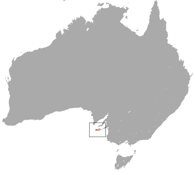 Kangaroo Island Dunnart (Sminthopsis aitkeni) range